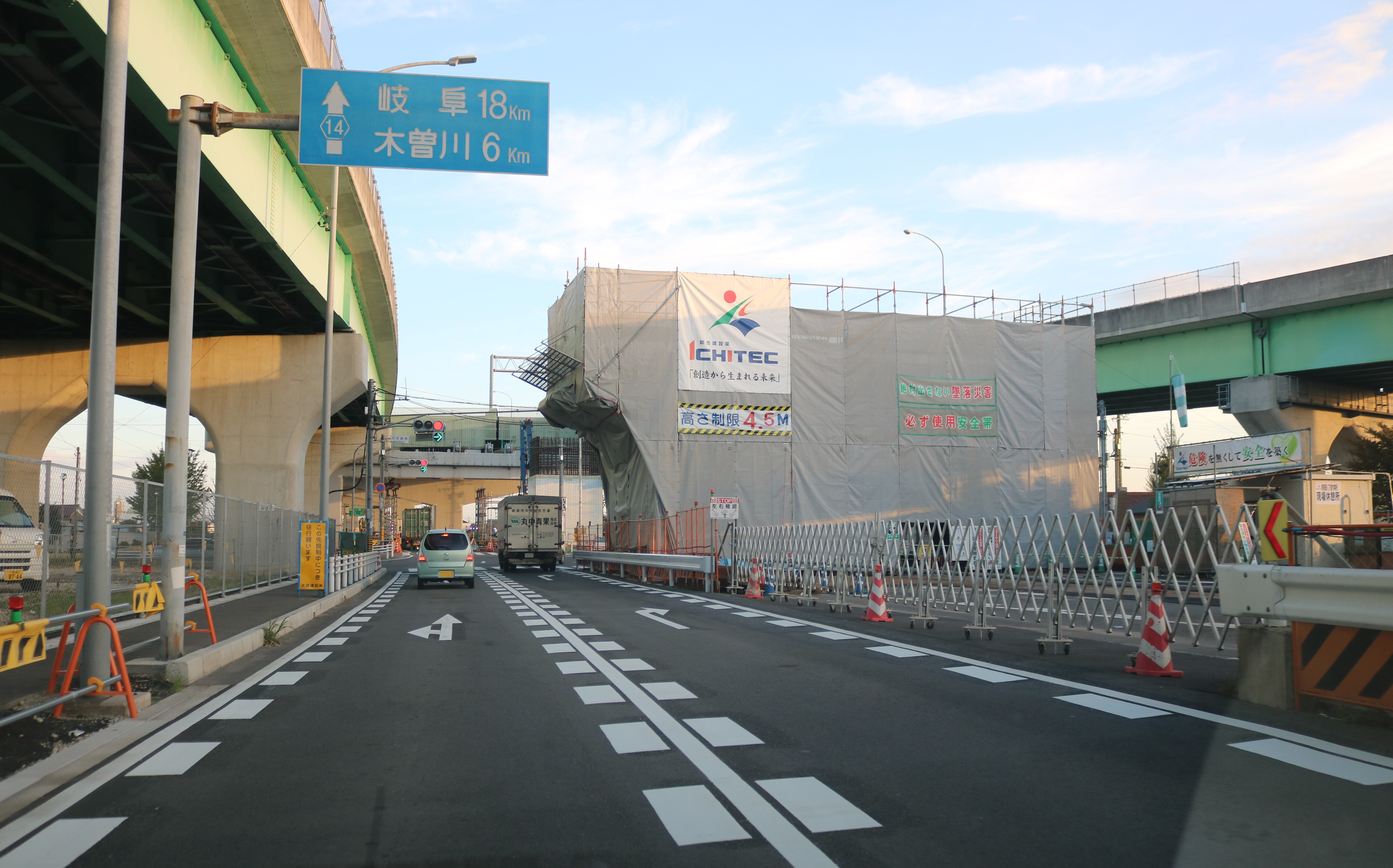 Aichi Prefectural Road Route 14 and Tokai-Hokuriku Expressway in Kariyasuka, Yamatocho, Ichinomiya, Aichi Prefecture, Japan.